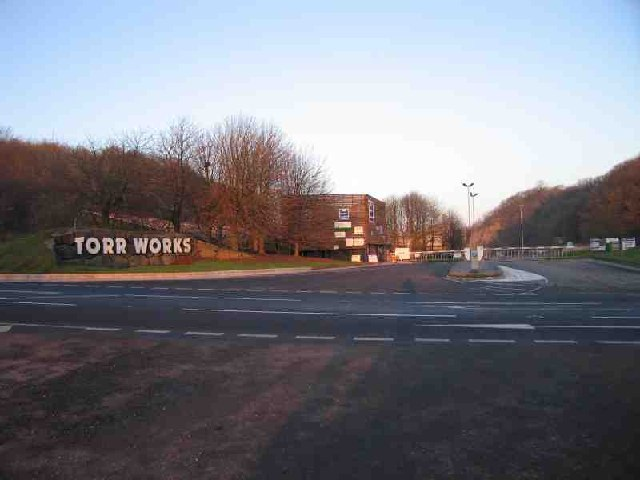 Torr Works entrance. The quarry covers an area of 1.5 km² virtually the whole of the square to the N has been quarried. A bridleway goes through it oddly enough!